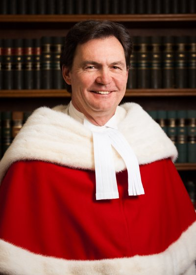 Image of Chief Justice Richard Wagner from the Supreme Court of Canada Collection by Andrew Balfour.